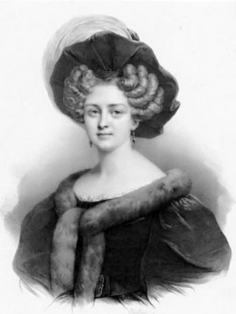 French soprano Zoé Prévost (1802-1861) by Henri Grevedon (1776-1860).